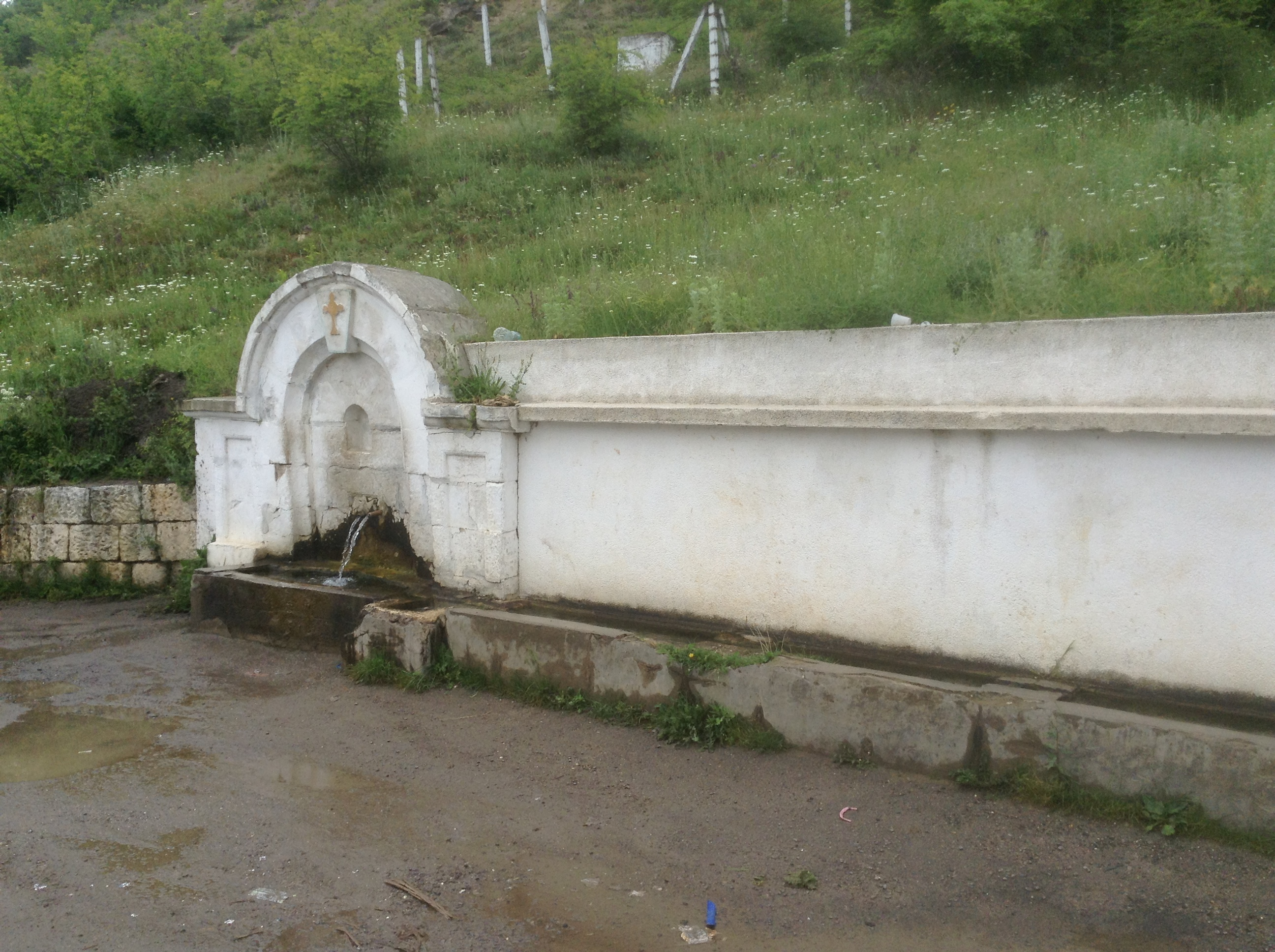 Water source above village of Svalenik, Bulgaria.